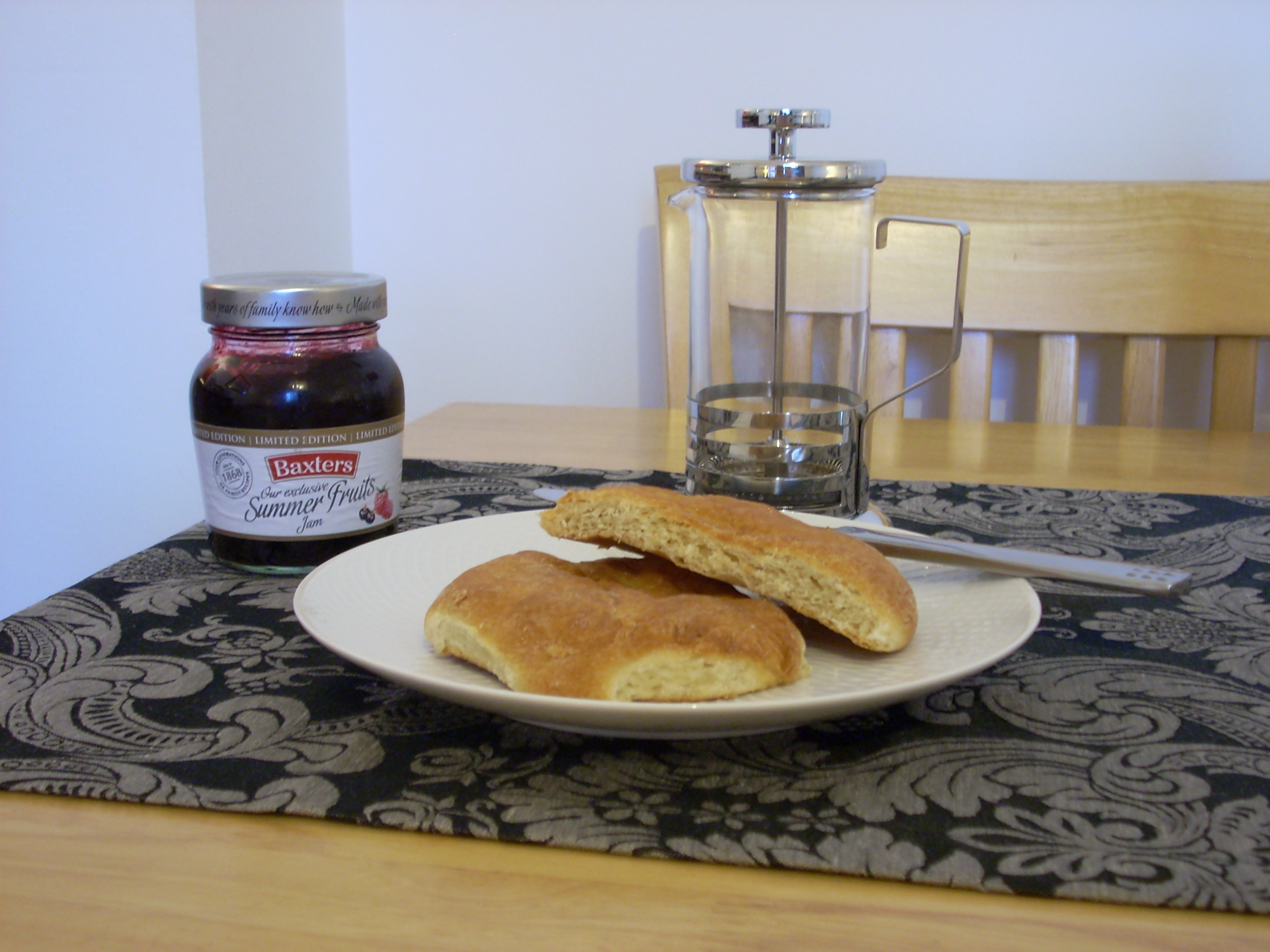 Two Aberdeen butteries (also known as rowies) served with fruit preserve/jam, one cut in half to show interior. The Aberdeen buttery is a specialty of the city of Aberdeen, Scotland. It was originally eaten at sea by fishermen from the city, as an energy-dense food that was tastier than dry biscuits but would not go stale easily.